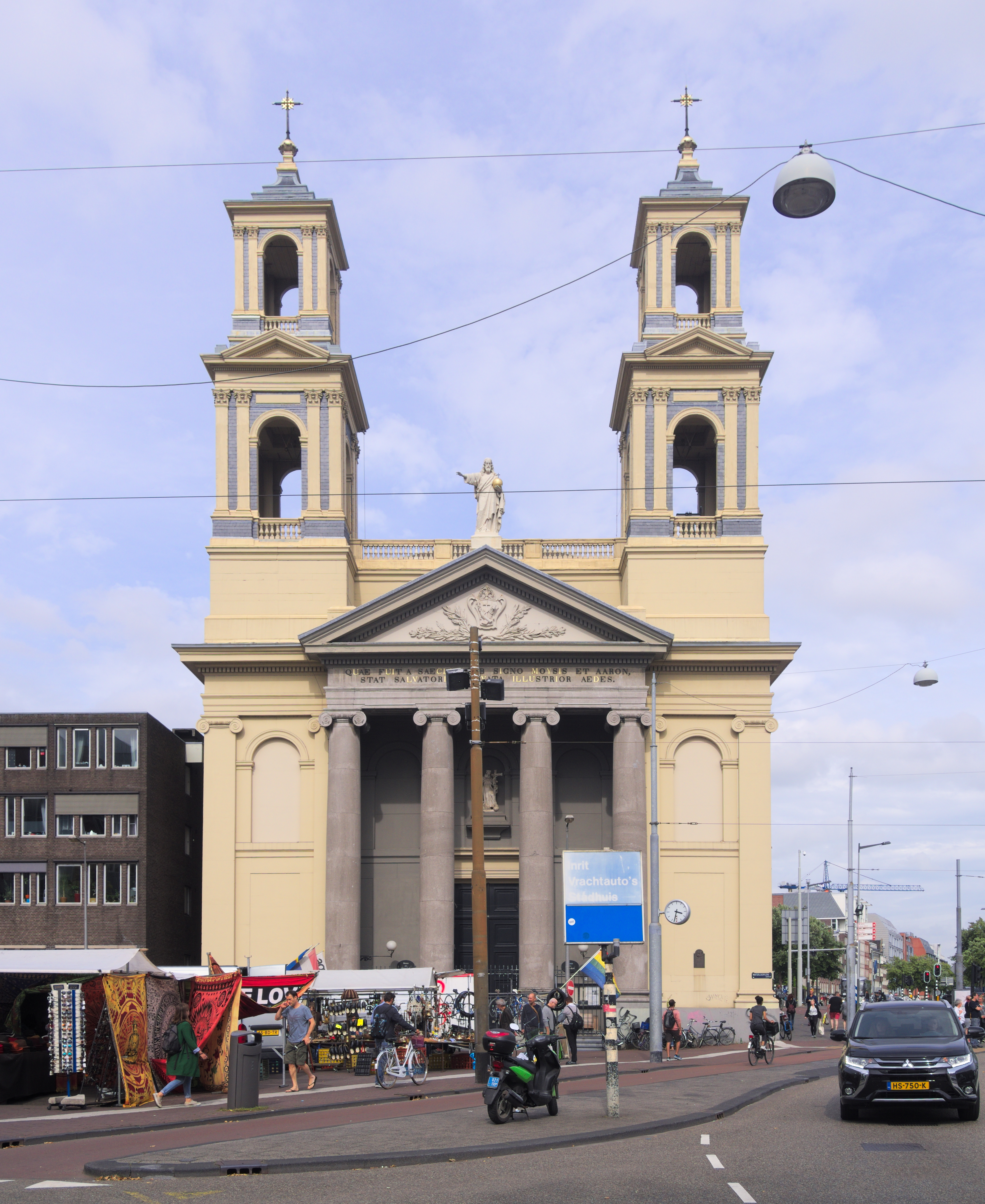 Moses and Aaron Church, Amsterdam.